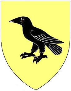 Arms of Corbet Baronets of Moreton Corbet, cr. 1808: Or, a raven sable (Debrett's Peerage, 1968, p.204)